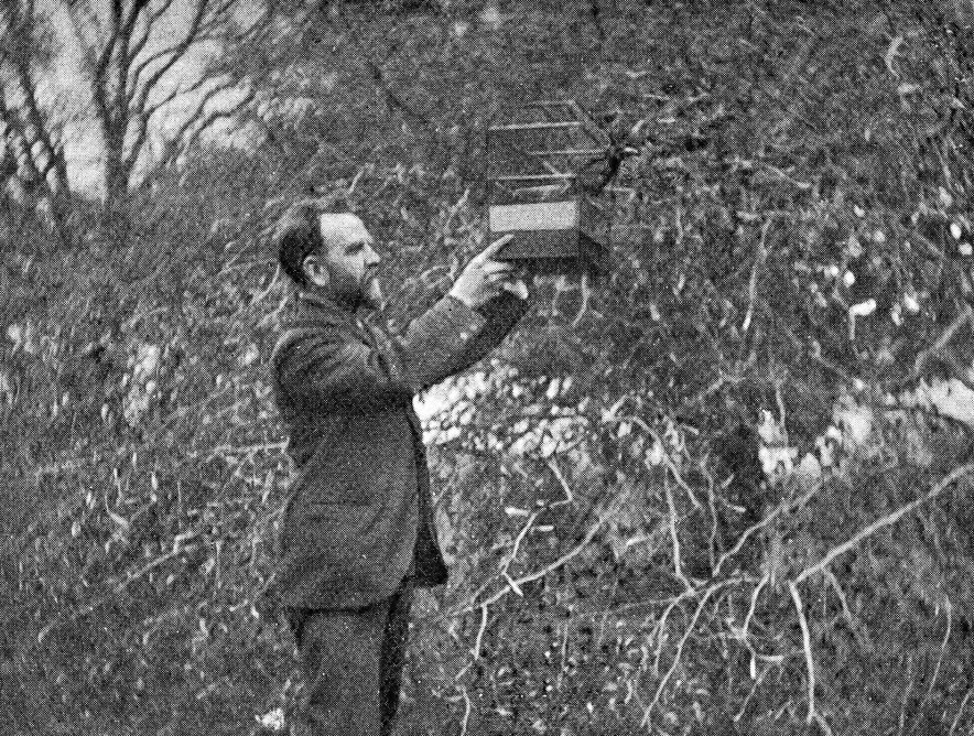 Ernest Bell freeing a caged bird – used to illustrate the original printing of this story in The Animals’ Friend Supplement – p54 – July 1902 – in the Ernest Bell Library